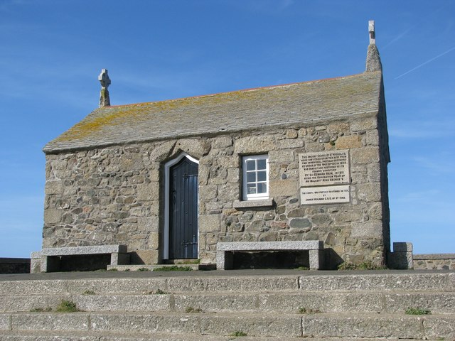 Chapel on St Ives Head